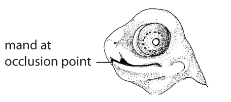 Standard Event System character depiction